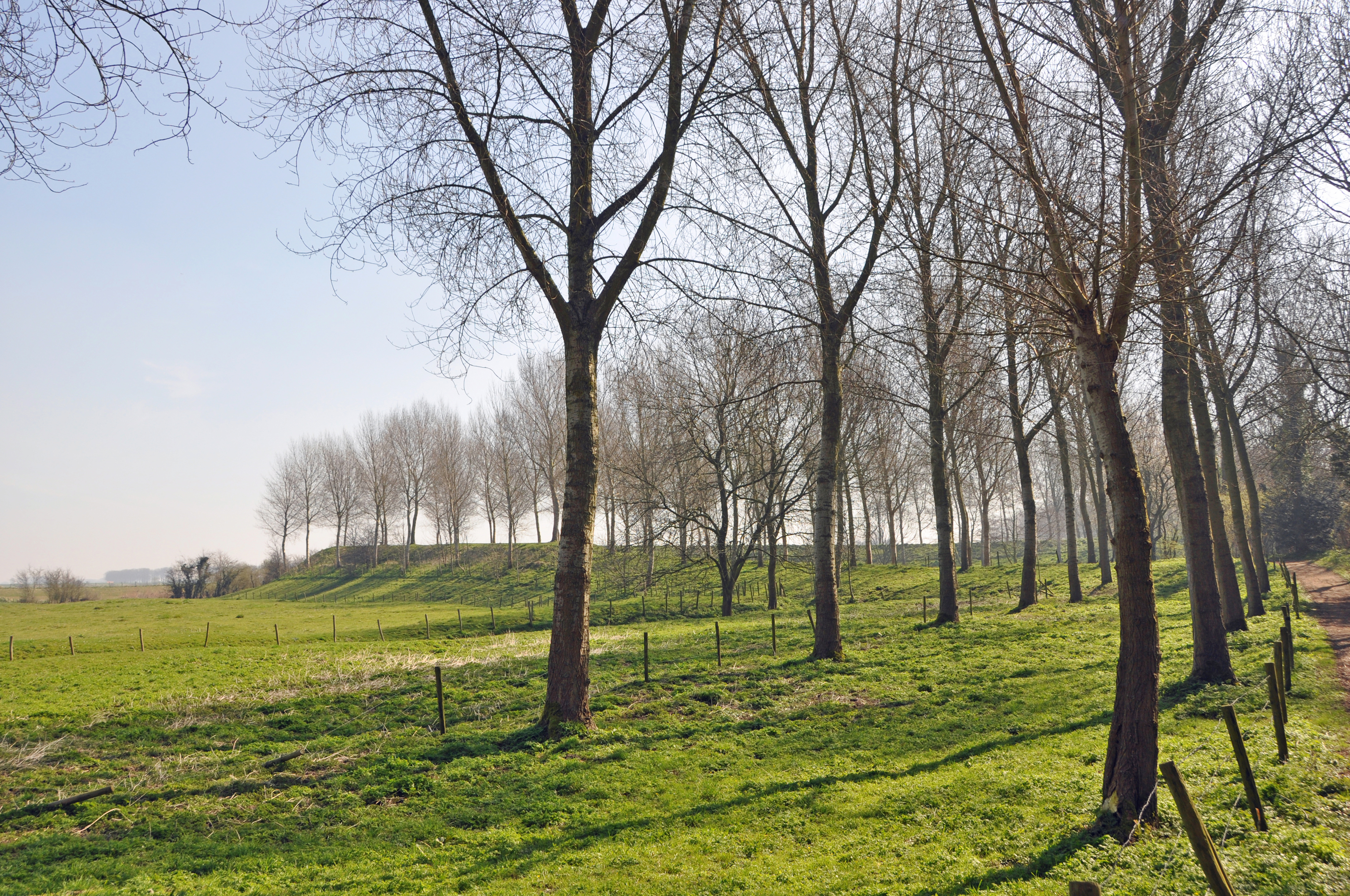 Sluis (the Netherlands): 17th Century ramparts